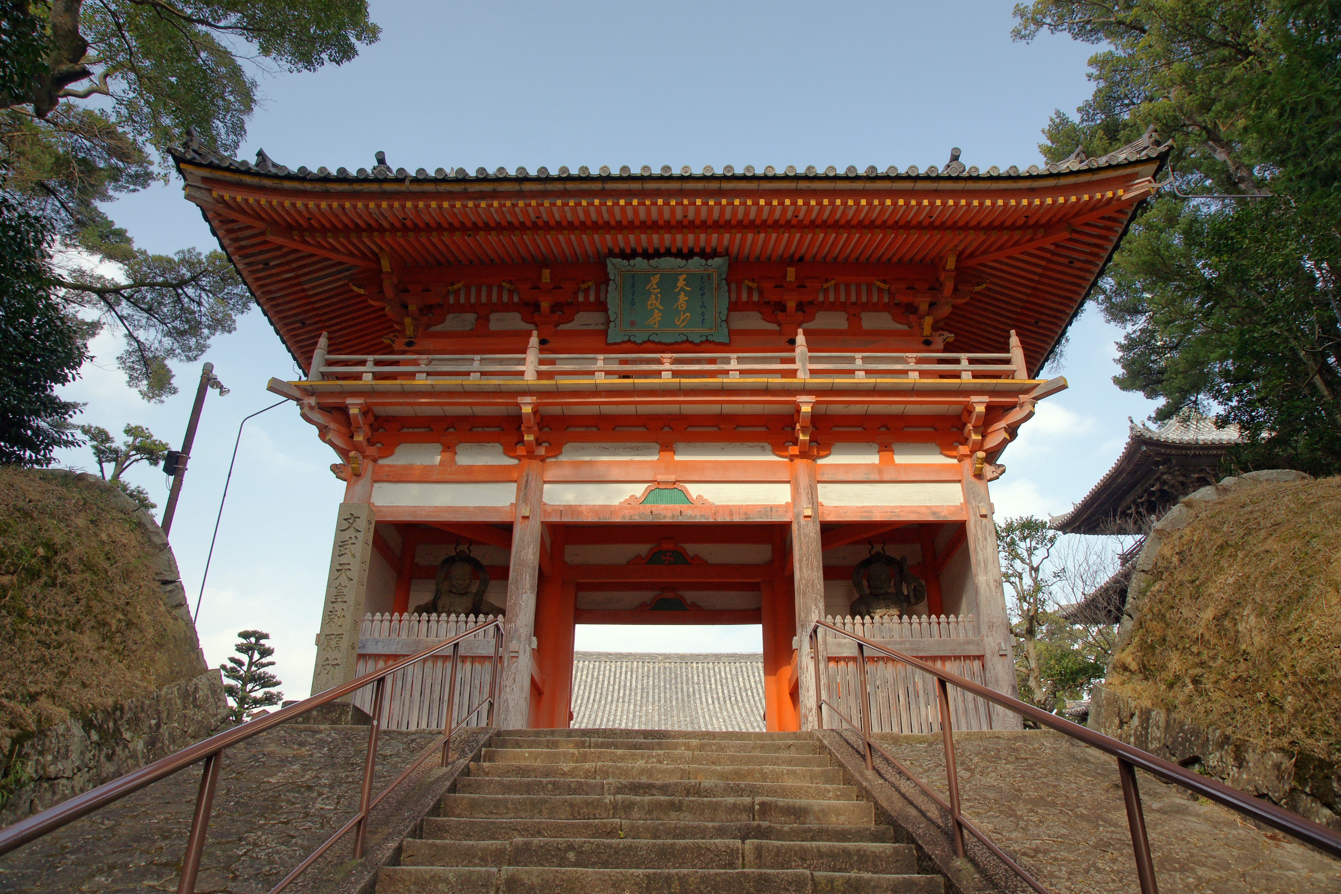 Dojoji, Hidakagawa, Wakayama prefecture, Japan